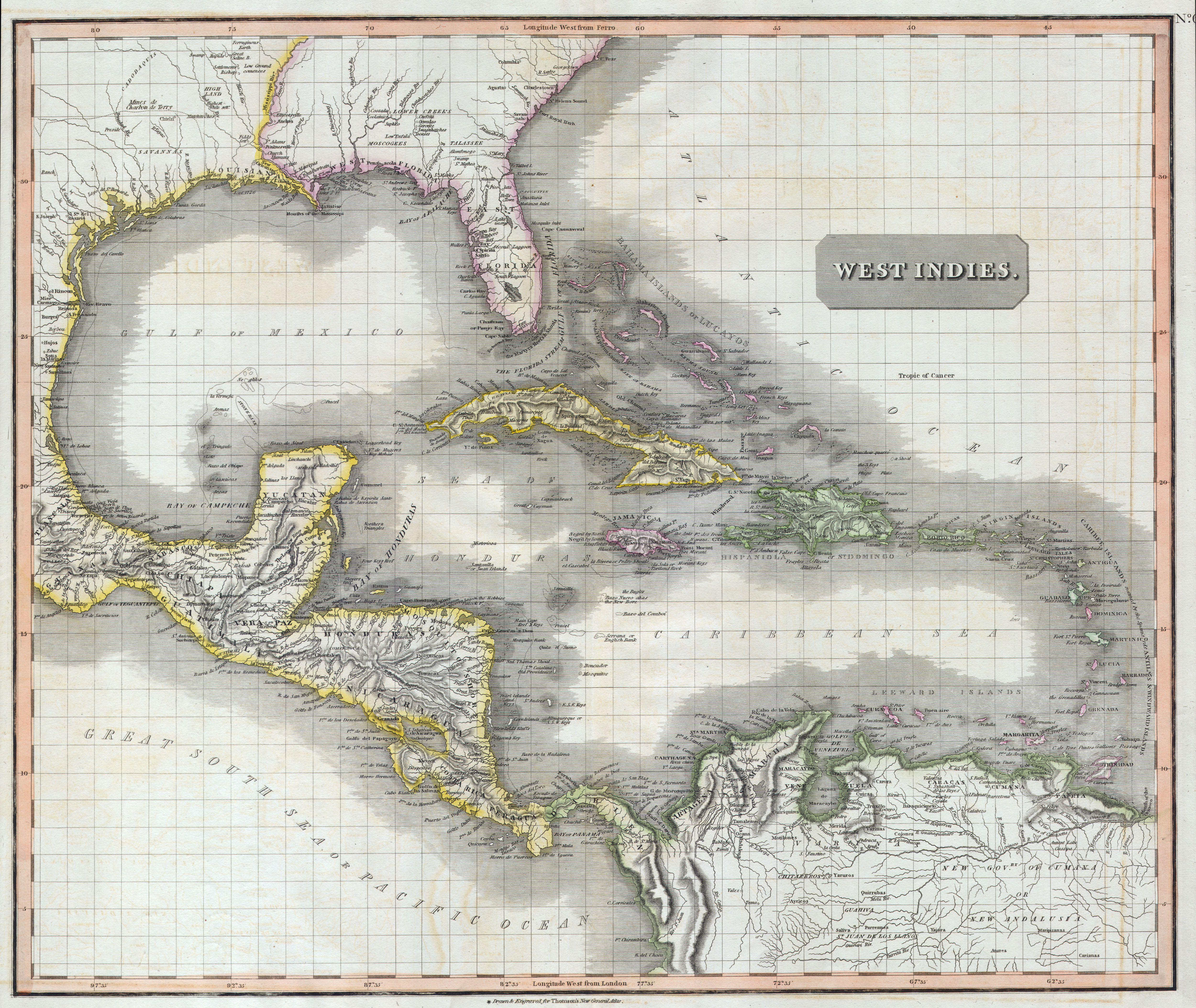 A masterpiece. This fascinating hand colored 1814 map by Edinburgh cartographer John Thomson depicts the West Indies and Central America. Covers from the Carolinas south through Texas, Mexico and central America to the northern part of South America as far as Venezuela and the Orinoco Delta. Includes all of the West Indies islands including the Caribbean and the Greater and Lesser Antilles. Extraordinarily details with notations on both physical and political features, as well as undersea elements, banks, and shoals. Notates several American Indian tribes in both North and South America. This map’s magnificent size, beautiful color, and high detail make this one of the finest maps of this region to appear in the early 19th century.